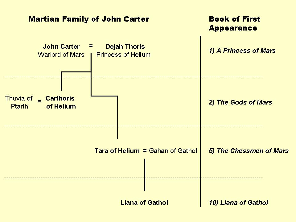 Diagram (Genealogy) of Martian Family of Earthman John Carter from Edgar Rice Burroughs Barsoom (Mars) Novels